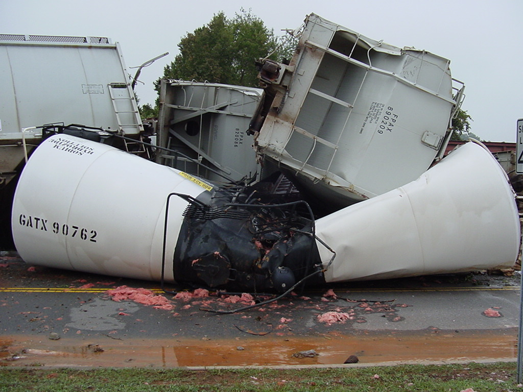 Derailed cars block a roadway in Farragut, TN in 2002.